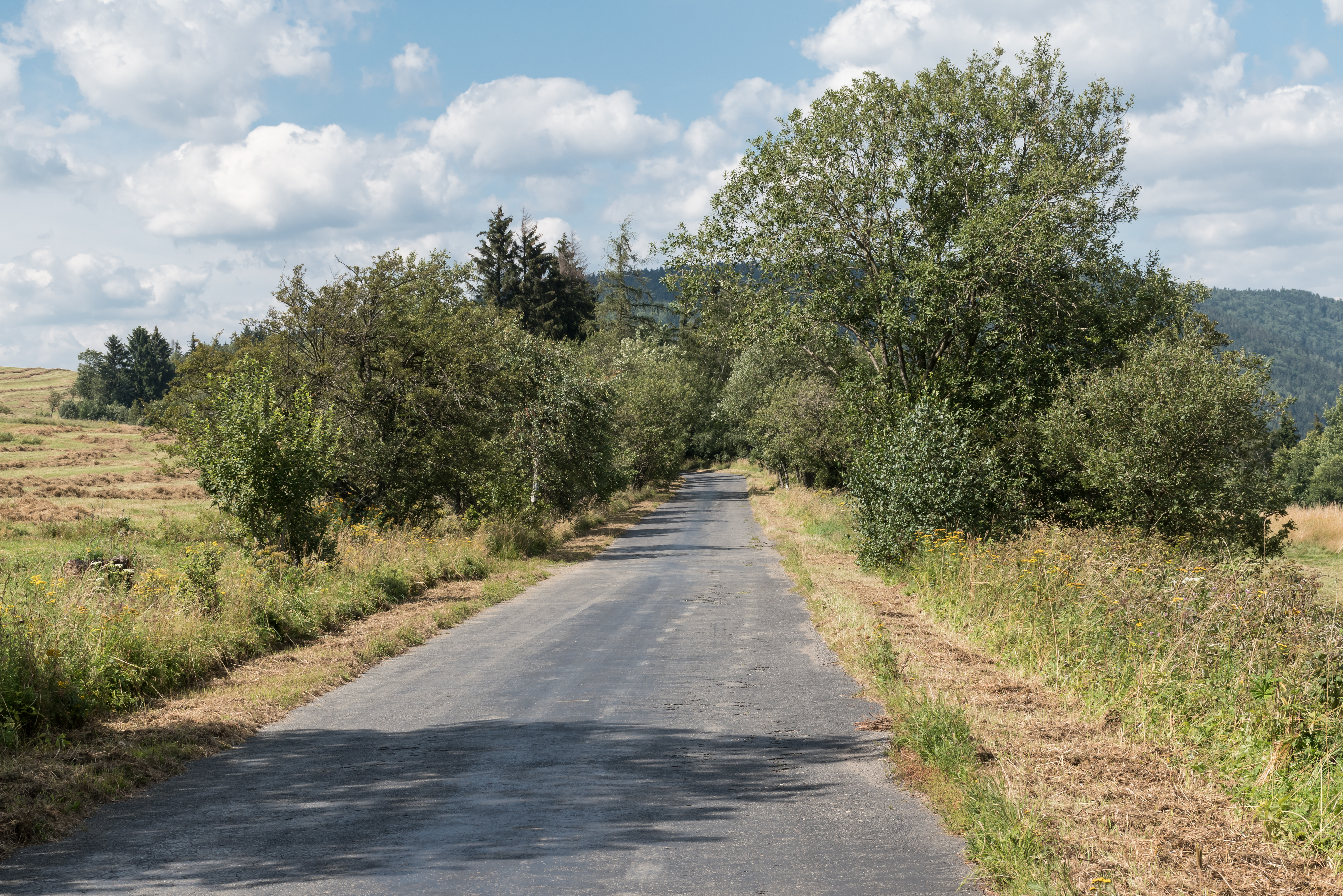 Voivodeship road 389 (Poland) between Gniewoszów and Nad Porębą Pass